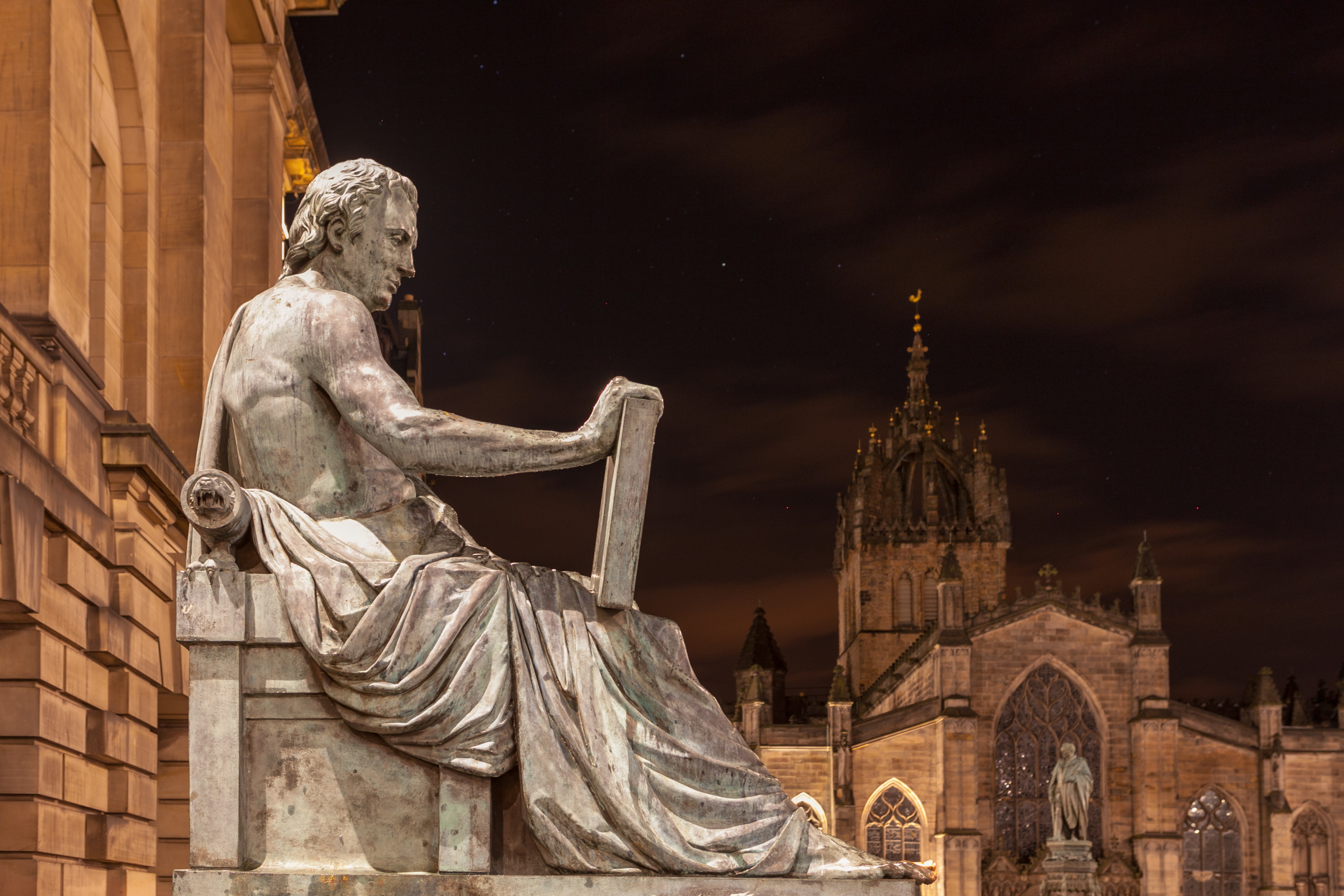 Statue of Scottish Philosopher David Hume (1711 to 1776) by Alexander Stoddart at one of the prominent landmarks on the Royal Mile in Edinburgh, Scotland.